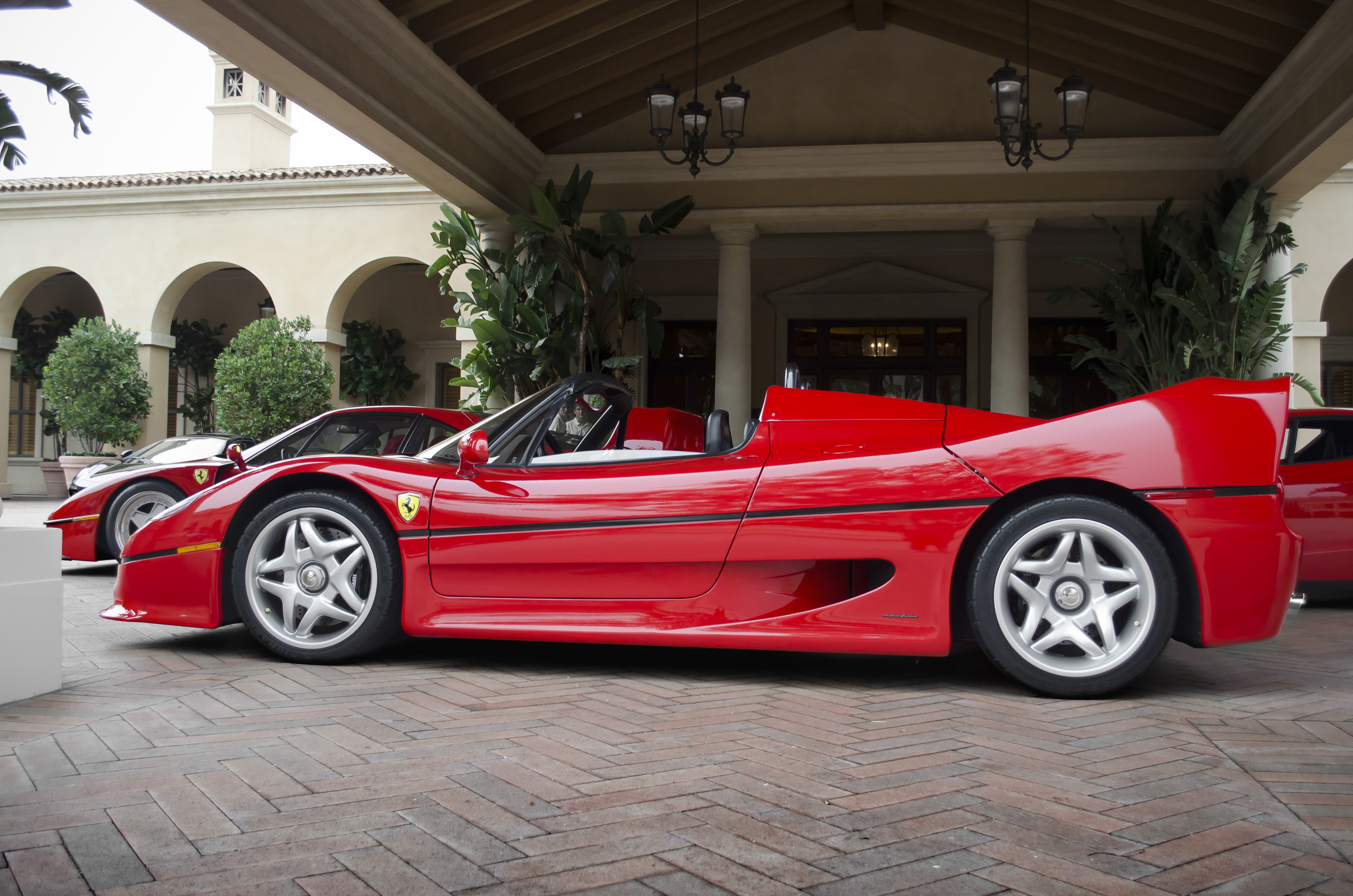 Red Ferrari F50 hanging out with some friends.